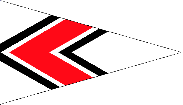 Yacht club flag Lübecker YC